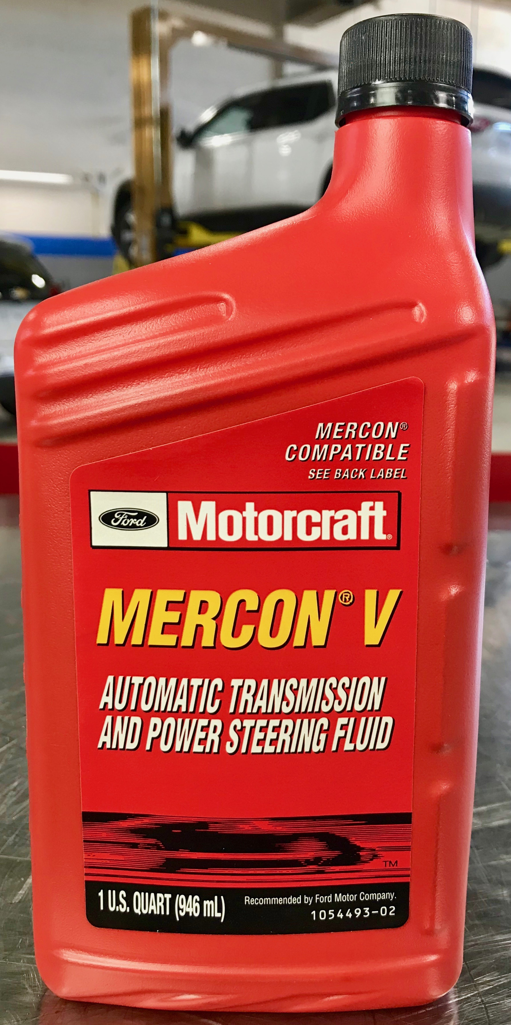 Mercon V ATF